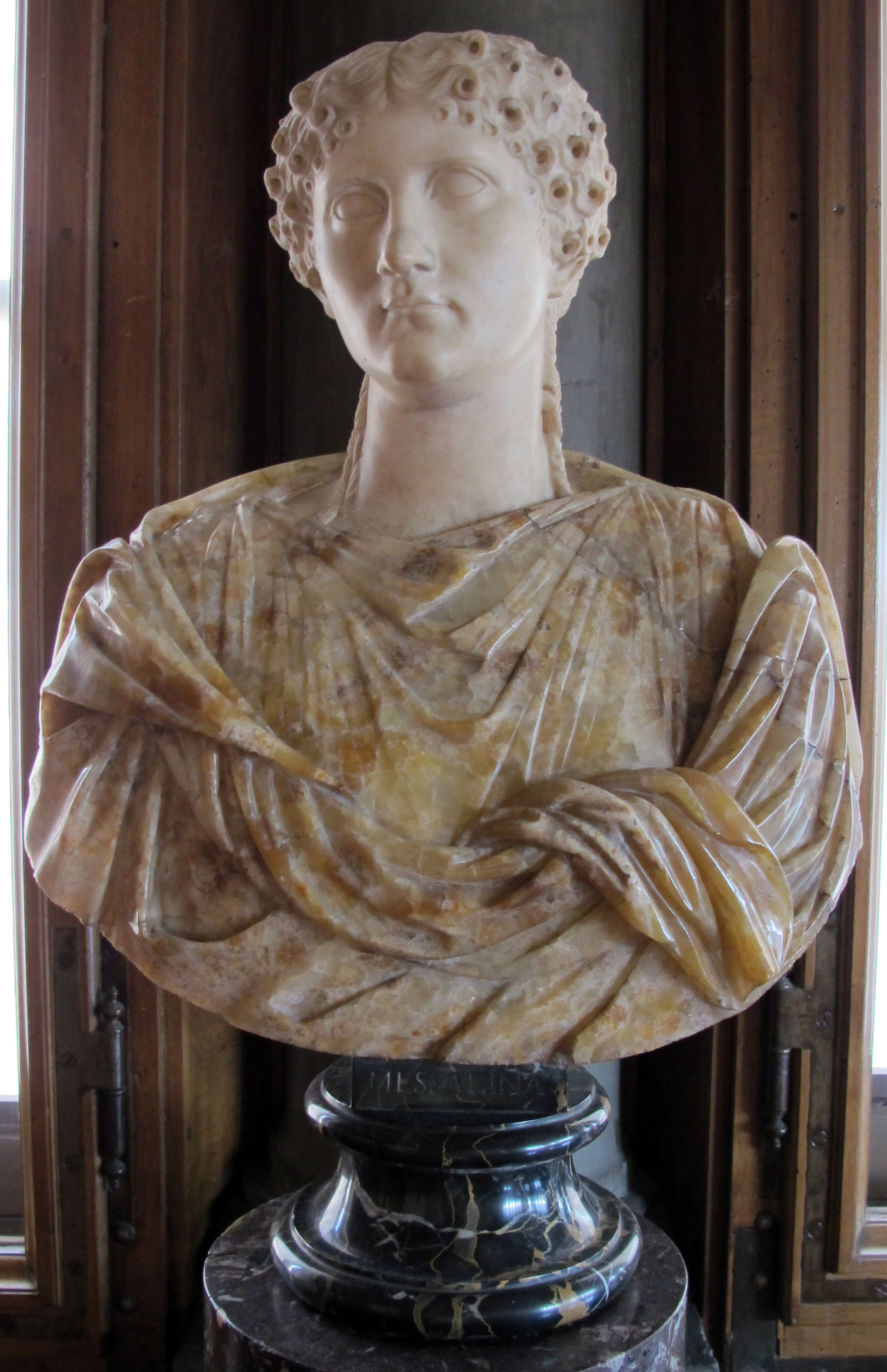 Ancient Roman busts in the Uffizi Gallery